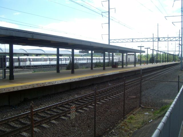 Marc Platform From Street Level